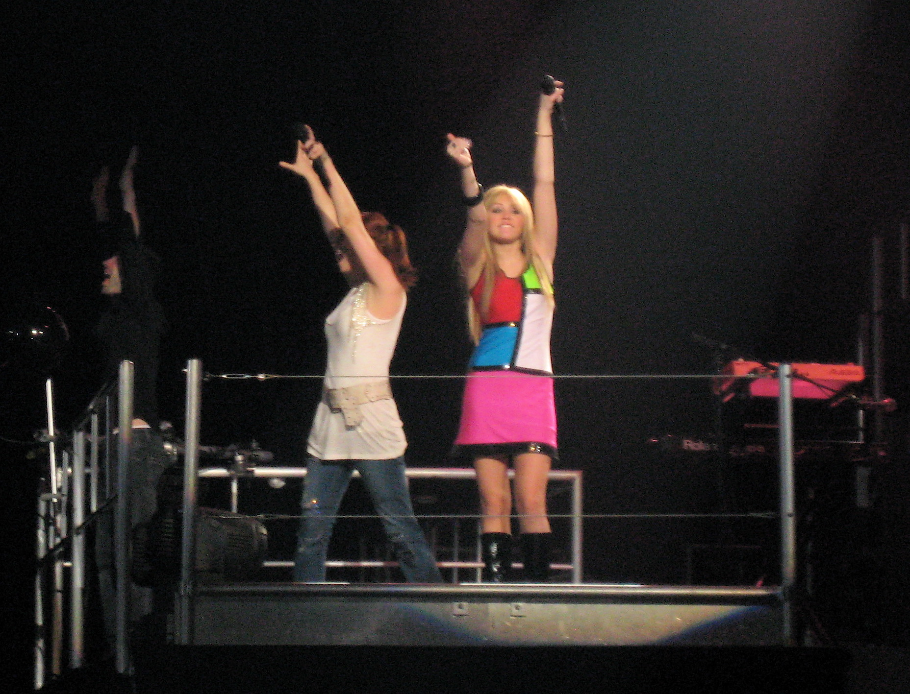 A teen singing.